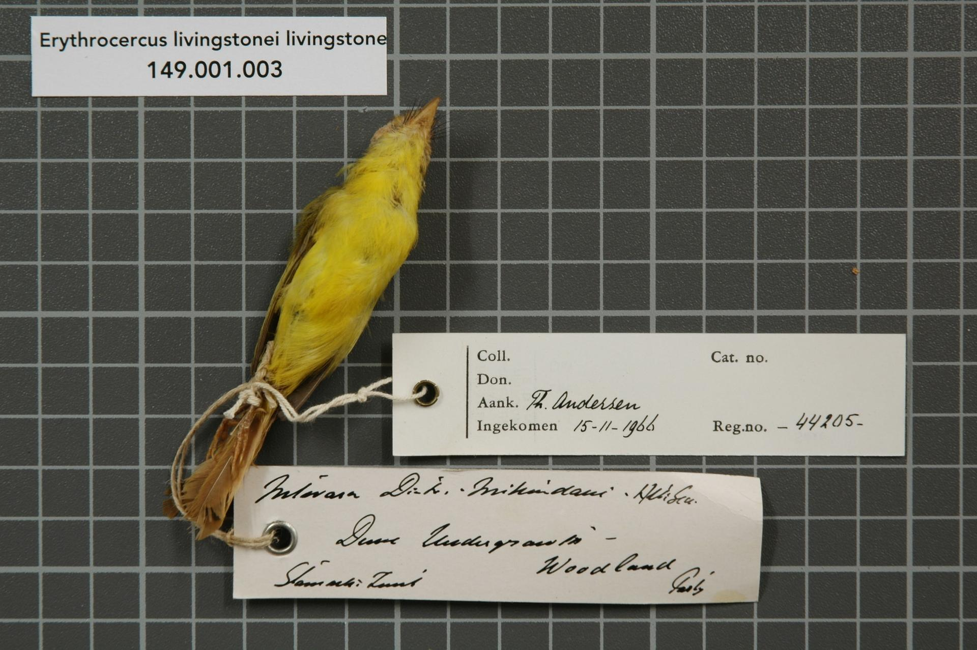 Erythrocercus livingstonei livingstonei Gray, 1870